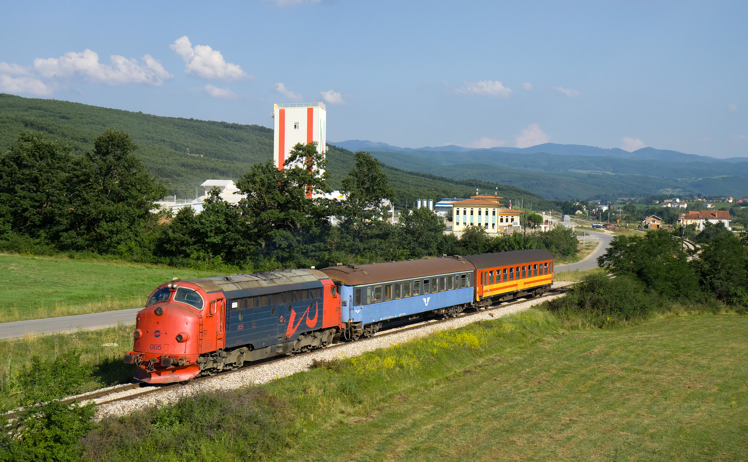 Former Norwegian Di 3 locomotive, now Kosovo Railways number 005, with the intercity train 892 (note the red and yellow Macedonian coach) just after Gurëz